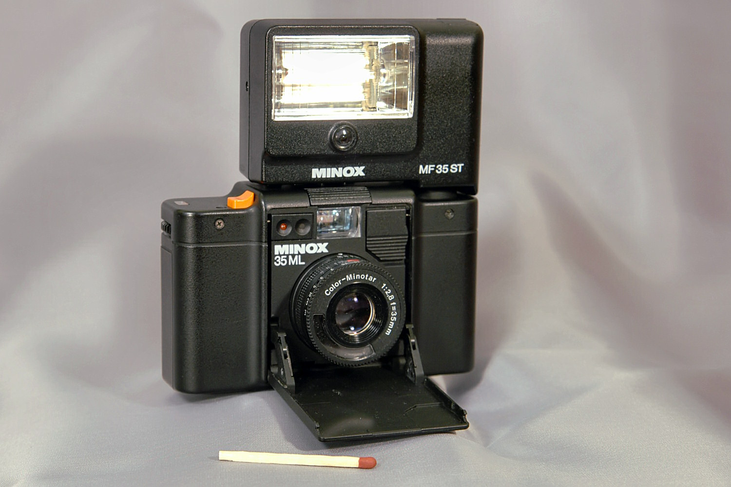 Camera Minox 35 ML, with flash MF 35 ST